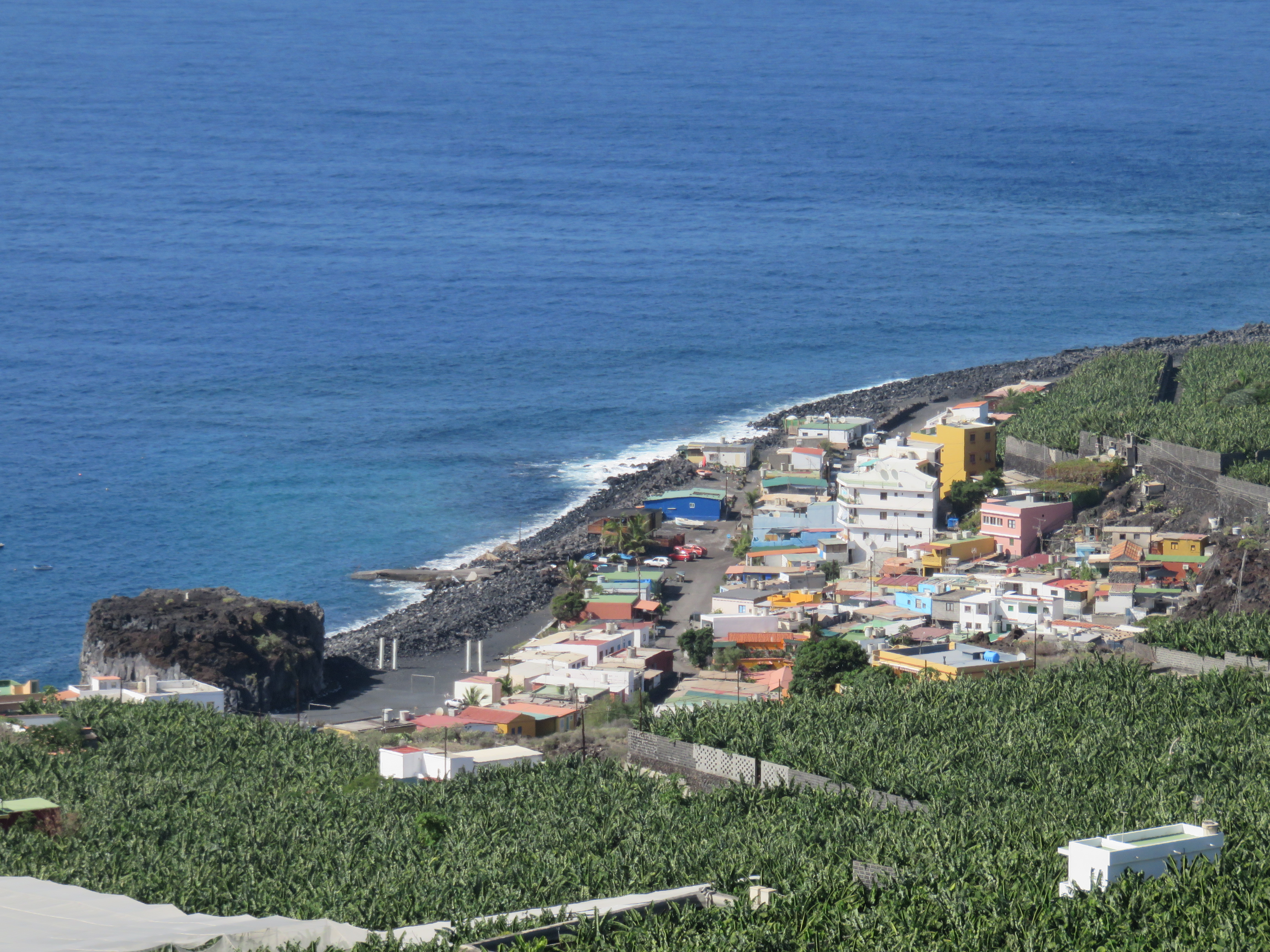 La Bombilla, community Tazacorte